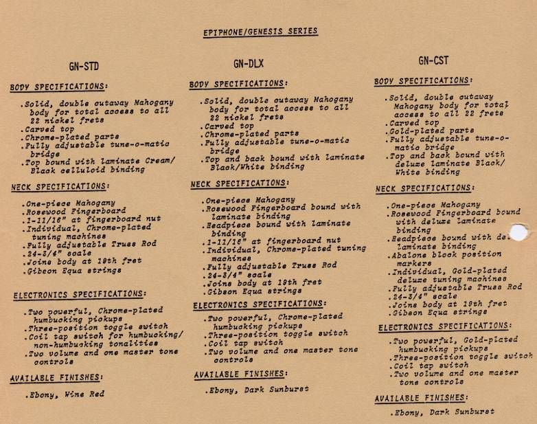 Original catalog descriptions of the three Epiphone Genesis guitar models manufactured in Taiwan in 1979, 1980 and early 1981.